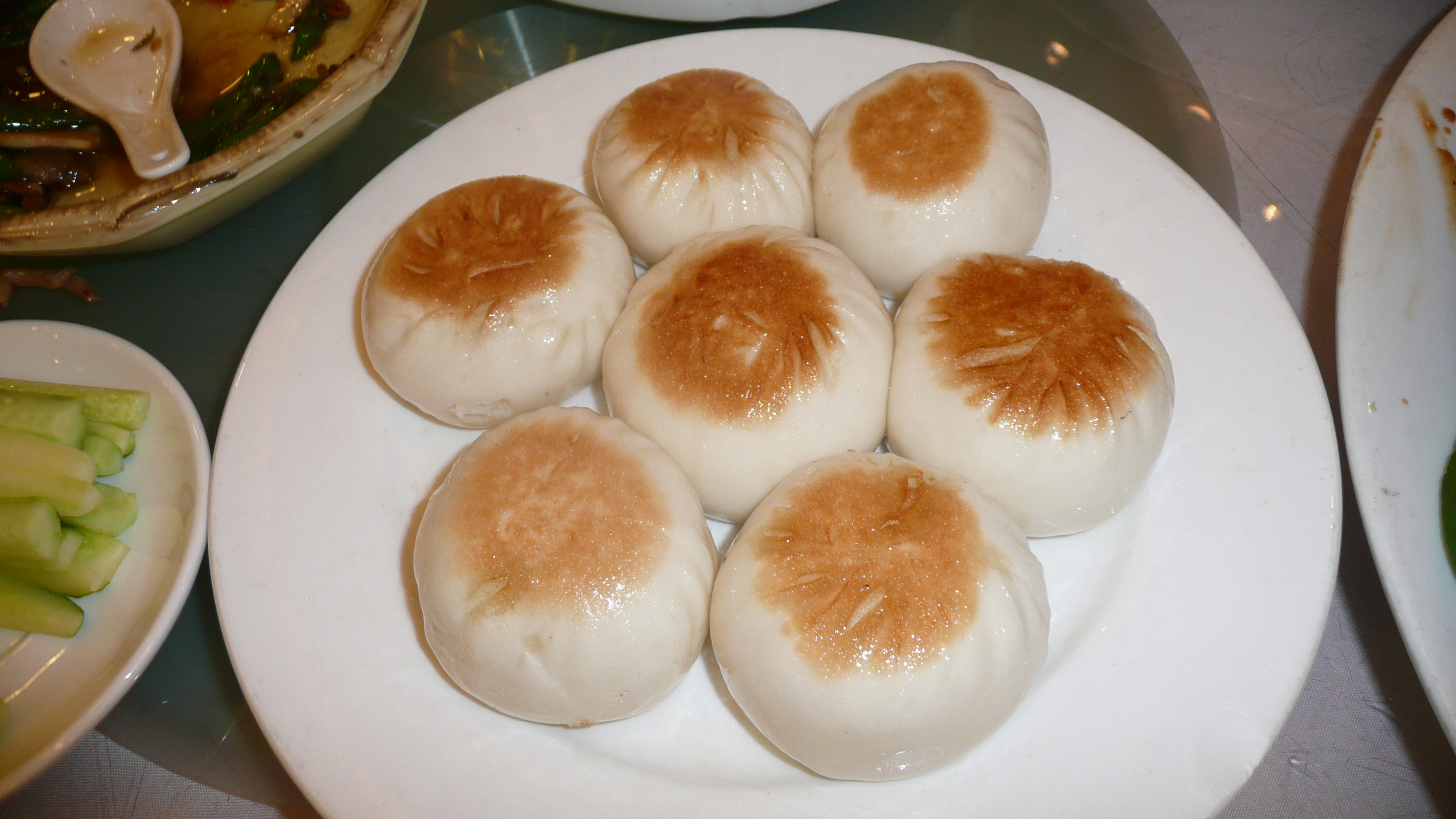 Cuisine of China, Shenzhen, Guangdong